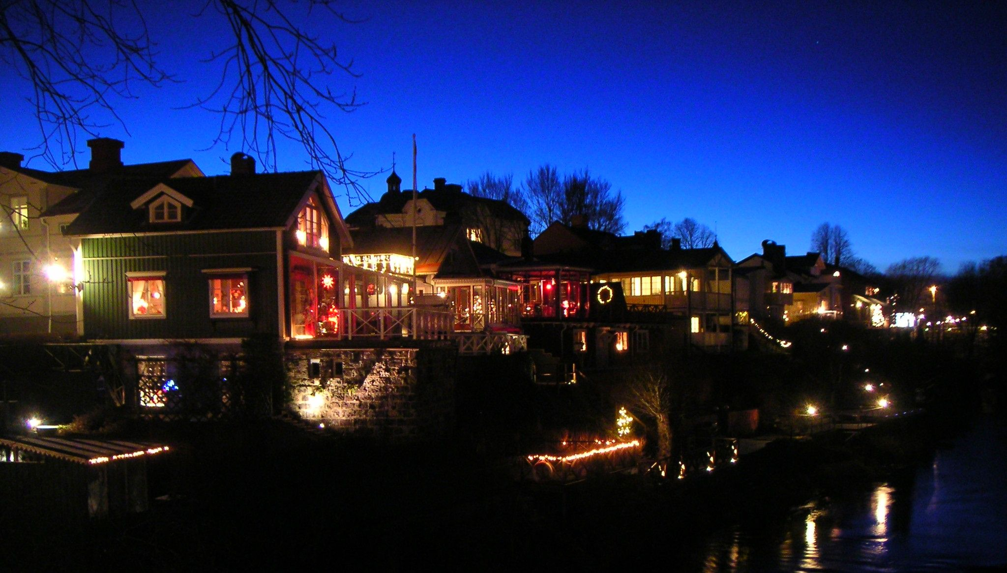 Houses by Gävleån in December, taken from Gammelbron towards Kungsväcksvägen.